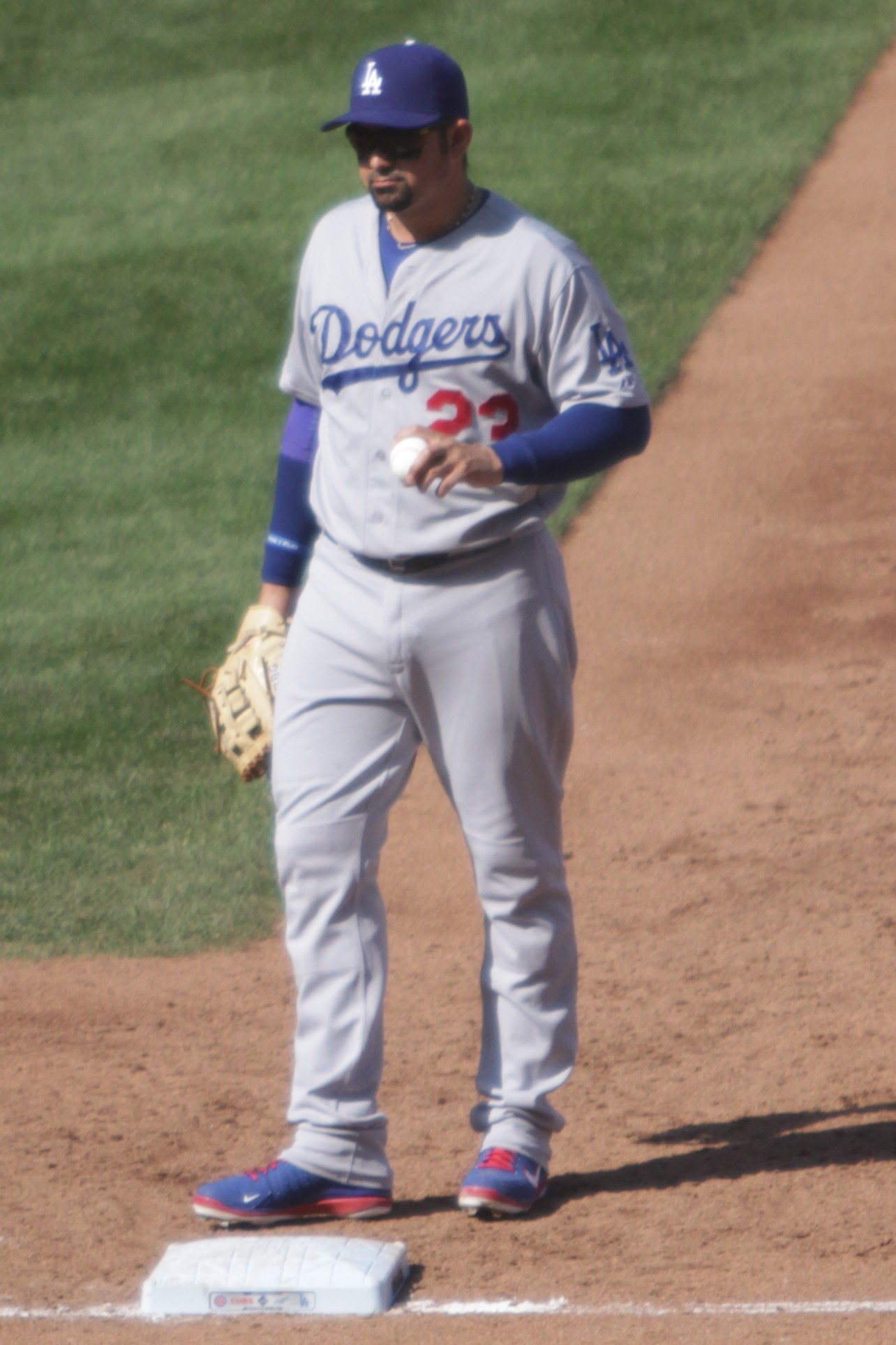 Adrian Gonzalez for the 2014 Los Angeles Dodgers against the 2014 Chicago Cubs at Wrigley Field.